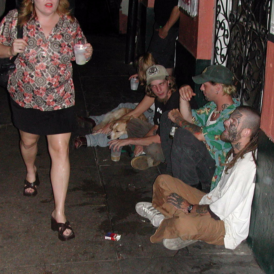 Gutter punks. Decatur Street, New Orleans, Louisiana, May 2002.Gutterpunks